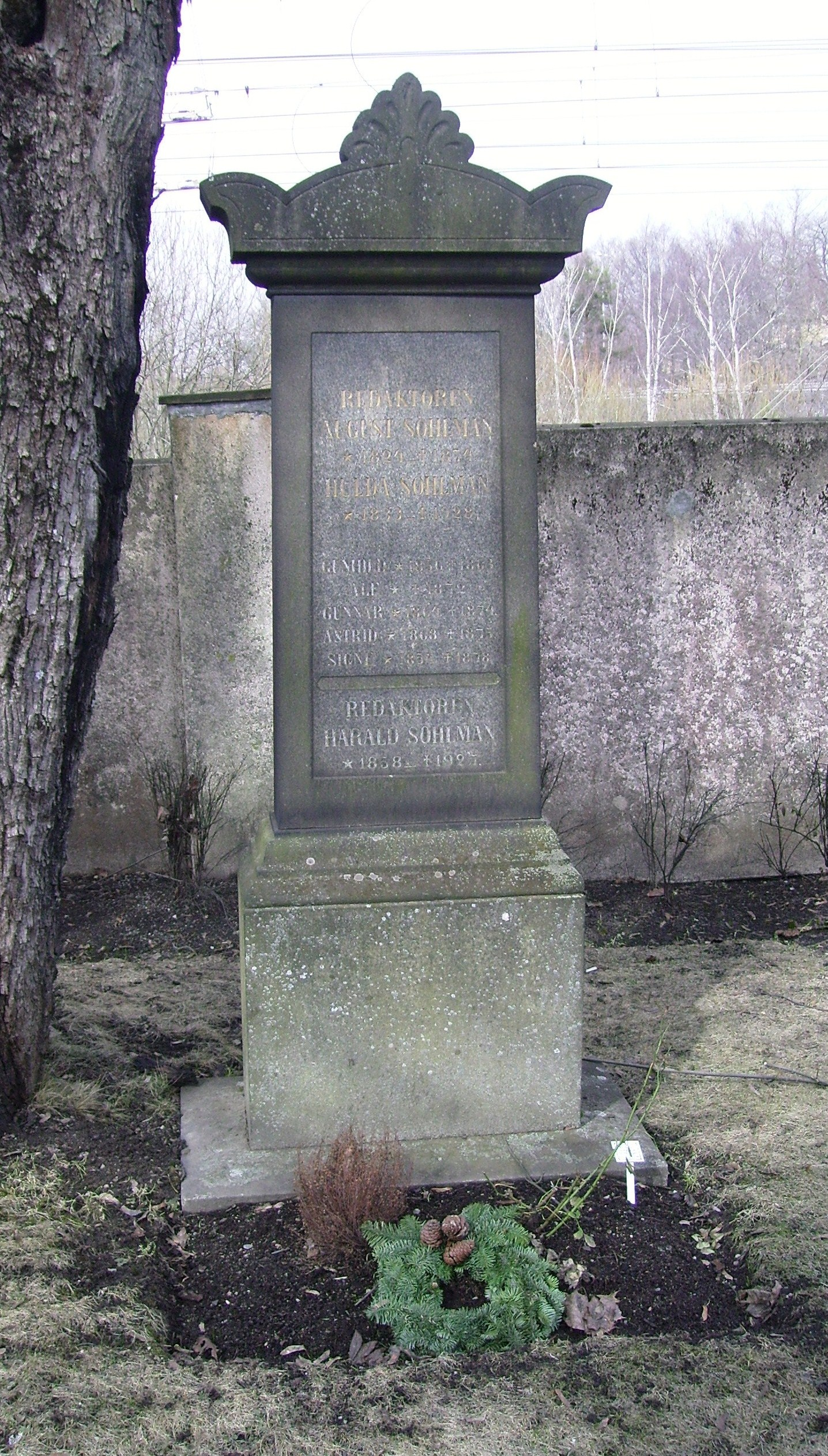 Picture of August and Harald Sohlman's grave at Huddinge kyrkogård in Stockholms län